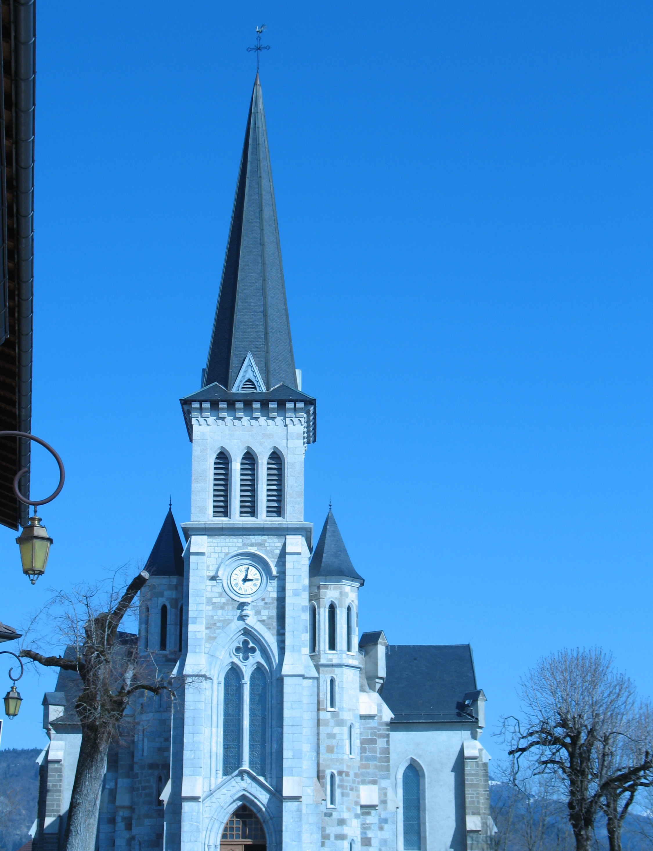 Saint-Laurent Church in Fillinges